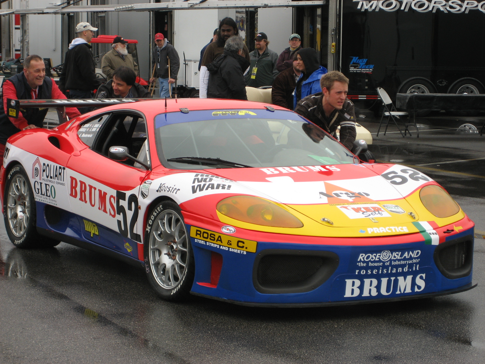 A Ferrari 360 GT2 at the 2007 24 Hours of Daytona